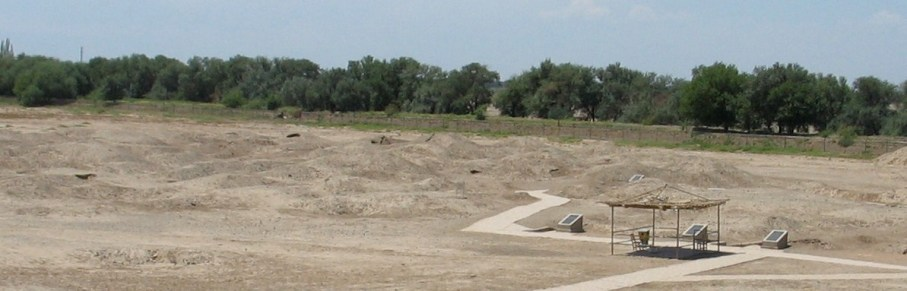 A view of the Astana Graves. Taken in June 2007.